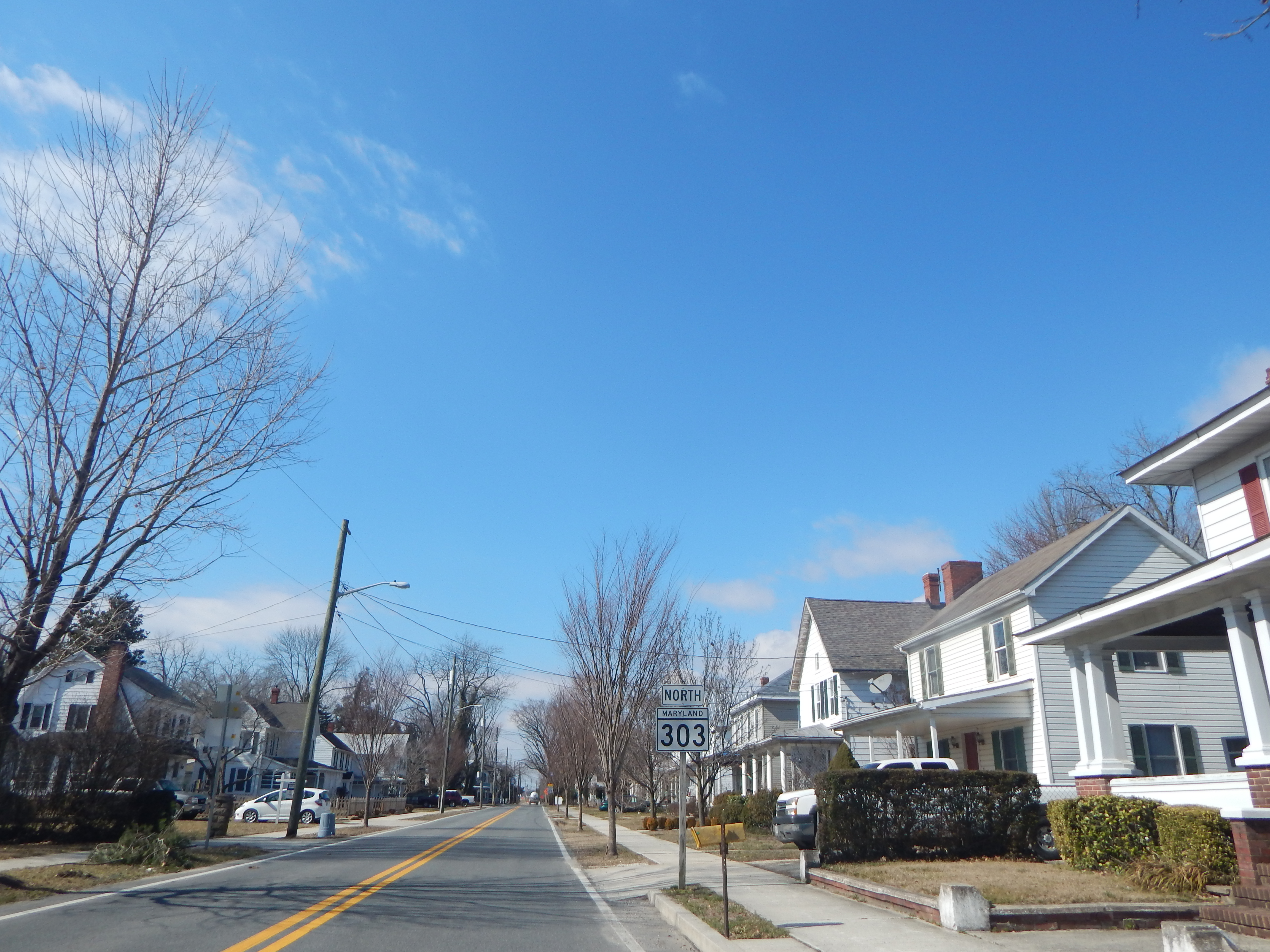 Maryland Route 303 in Queen Anne, Maryland.